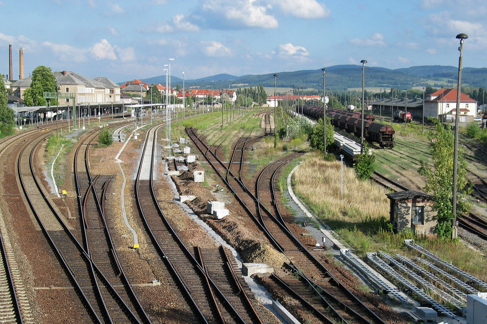 Train station Bautzen in Saxony, Germany from west.